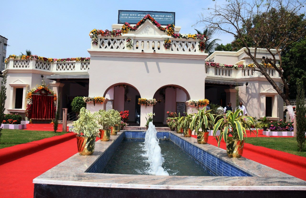 Anand Bhawan, Biju Patnaik's ancestral house.